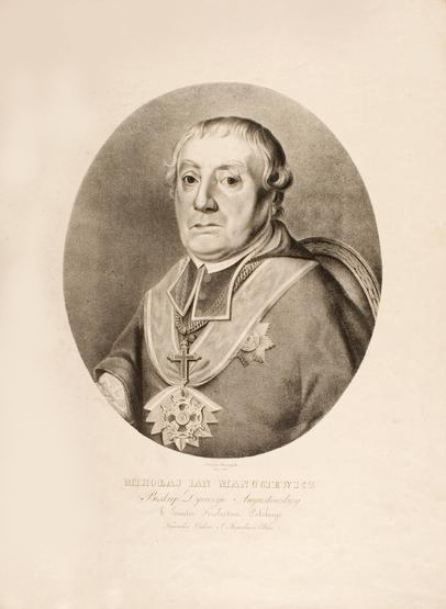 Mikołaj Jan Manugiewicz